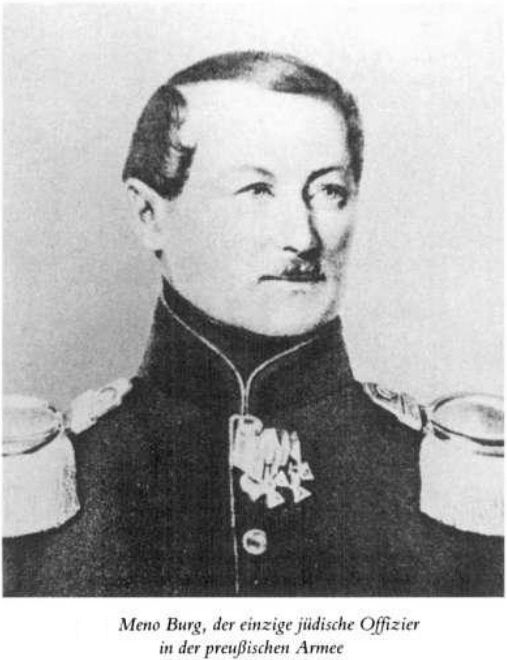 Jewish Major Meno Burg, Prussian